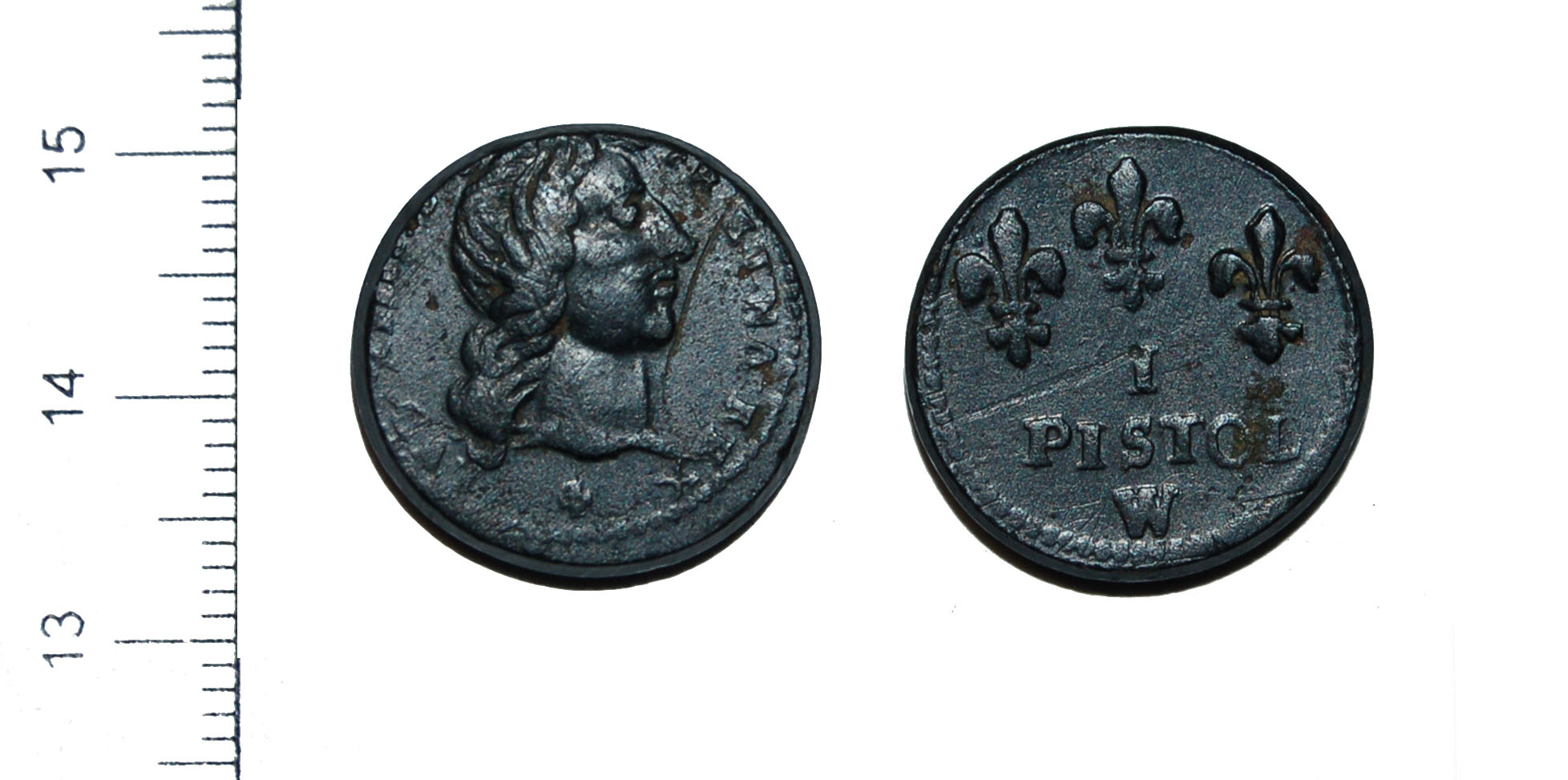 A copper-alloy coin weight of mid 17th to early 18th century. The weight has slightly chamfered corners on the edges. Obverse shows wavy haired head right, symbol, probably cross below in this instance although a fleur de lis might be expected. Obverse legend, is slightly miss struck so some legend falls off of edge and very worn at start of legend, reads LVD XIIII [D G] FR ET NA REX. Reverse shows three fluer de lis at top with: I/PISTOL/W below. Pistol or pistole is a common name for several foreign coins, on English weights referes to a Spanish 2 escudos or the French Louis d'or ssed 1640-1709. This is the latter: LVD XIIII [D G] FR ET NA REX on obverse. The W on the reverse is a makers mark. Full weight - 6.75 g. Weight 6.6g, diameter 19.07mm, thickness 3.24mm. Die axis is 12 o'clock. Ref: withers and withers (Lions, ships & angels: Identifying coin weights found in Britain): p.46-7.